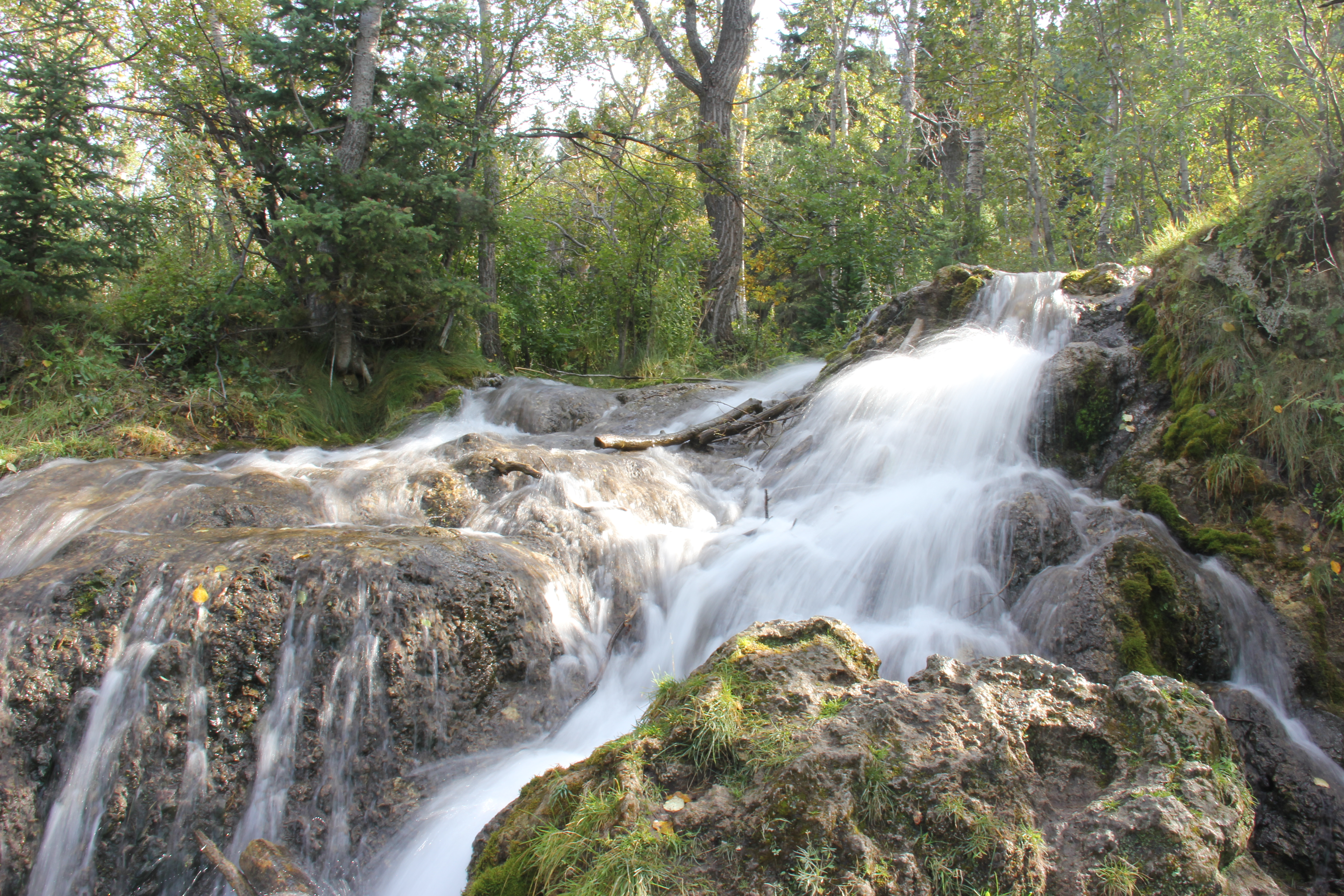 Big Hill Springs provincial park This photo was taken in a protected area in Canada, Wikidata item Big Hill Springs Provincial Park (Q4905824)